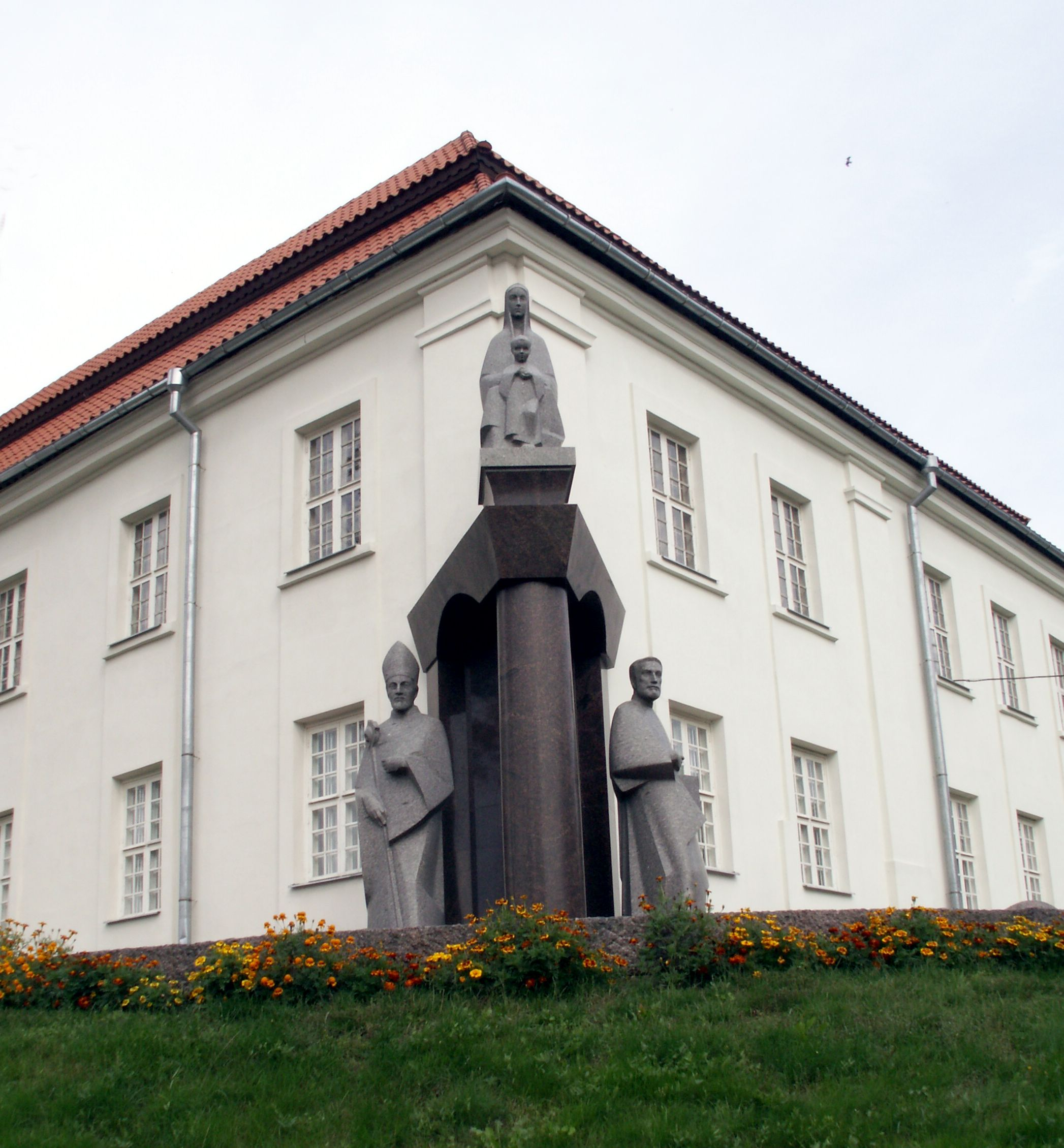 Varniai church museum, Lithuania